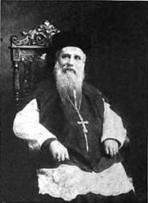 caption from original source: Rt. Rev. Nepomucene Jaeger, D.D., O.S.B., Abbot of St. Procopius Abbey.